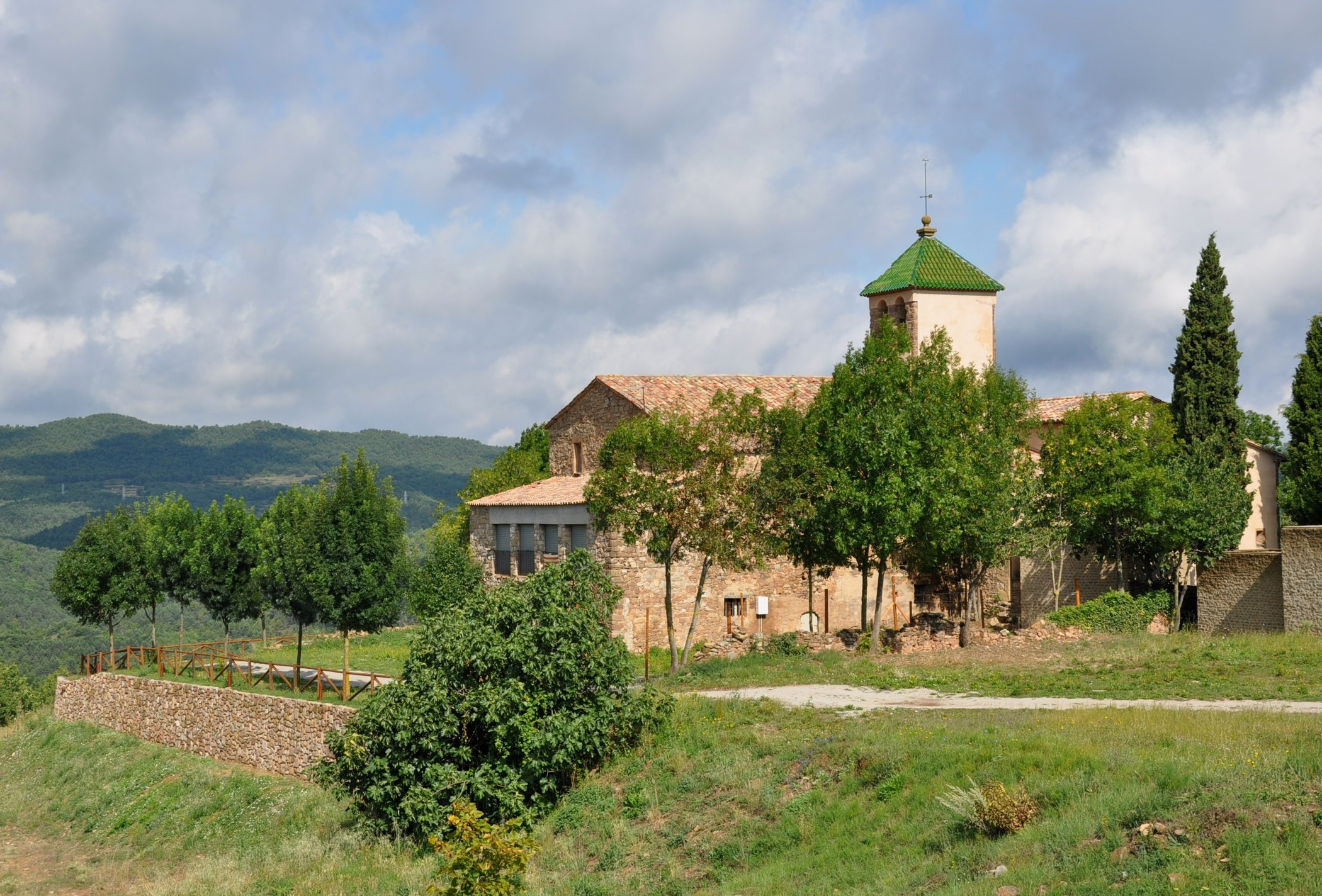 Church of St. Quiricus and St. Julietta of Muntanyola (Comarca of Osona, Catalonia, Spain). This is a 17th century church, built and decorated with the simple yet rich forms of the Spanish Baroque. Eight centuries earlier a first church was built in this location.